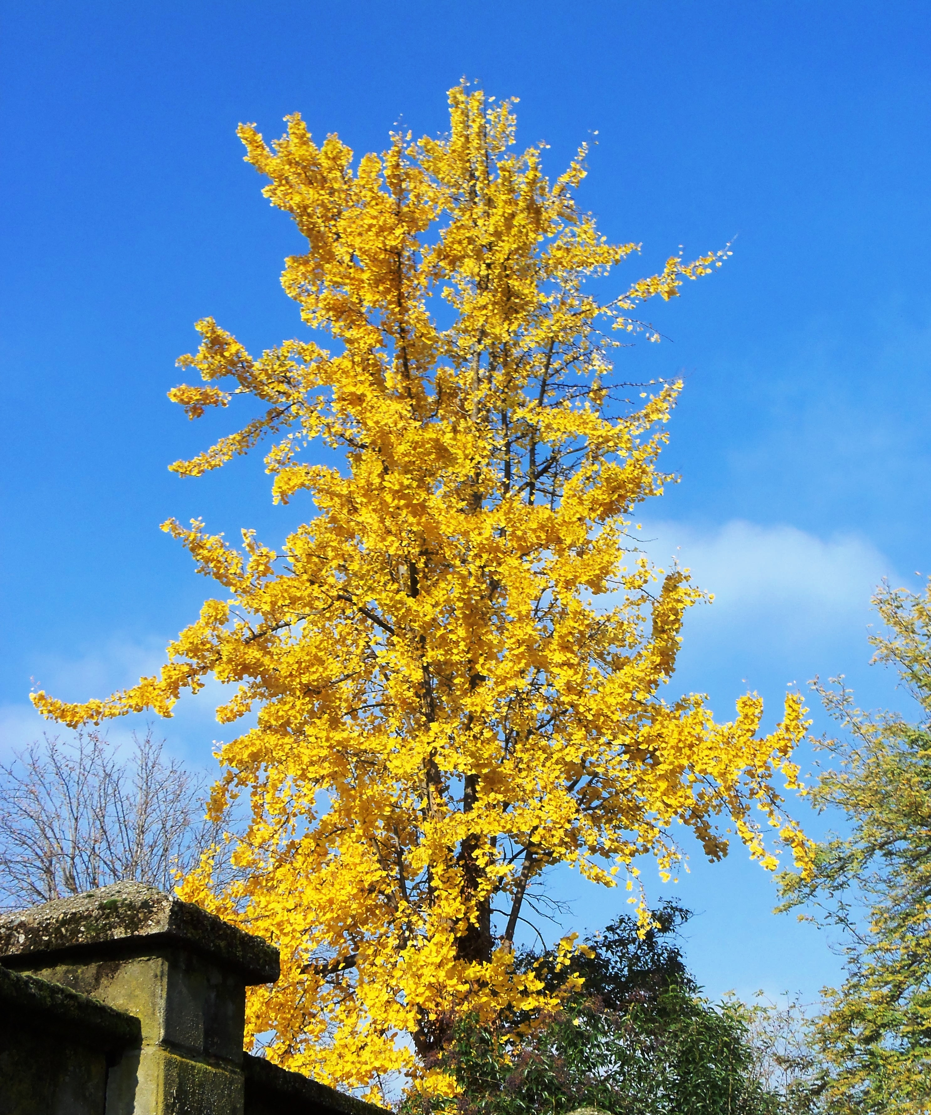 Milano, Villa Finzi park. Autumn leaves for a ginko-biloba